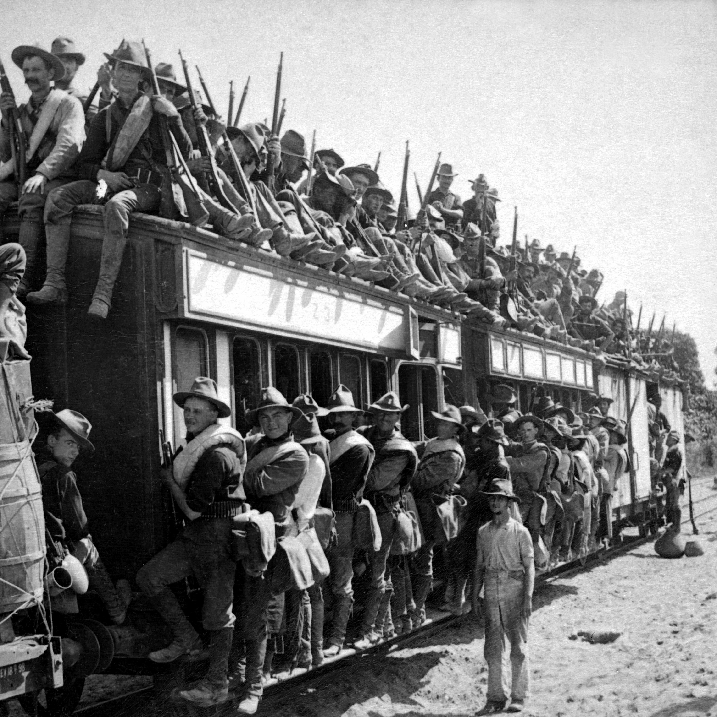 Overcrowded military train with soldiers on roofs and footboards of its railcars. 17th Infantry going to the front.